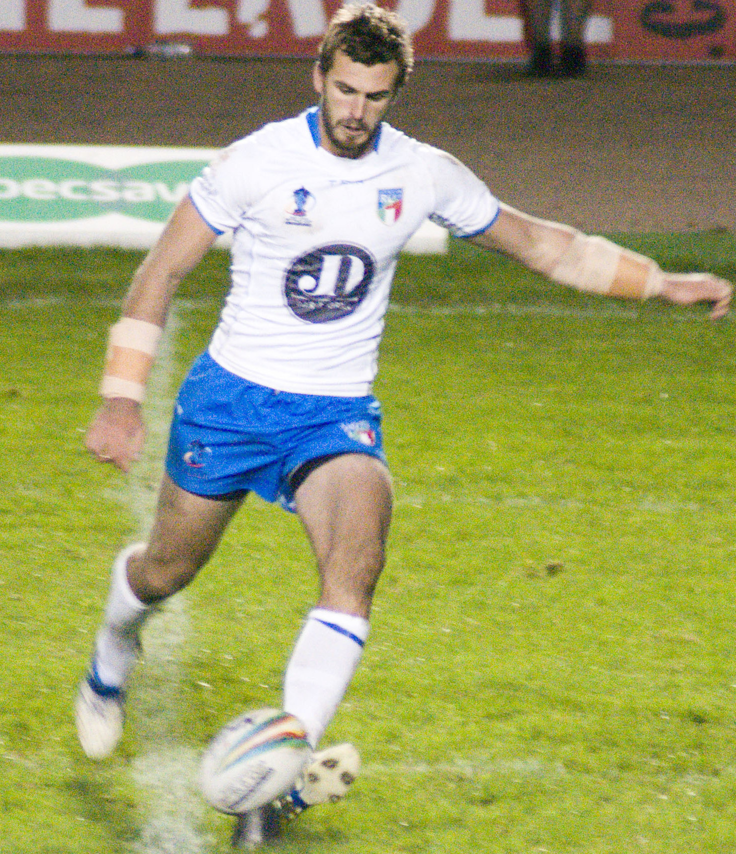 Joshua Mantellato during 2013 Rugby League World Cup match between Scotland and Italy at Derwent Park in Workington.